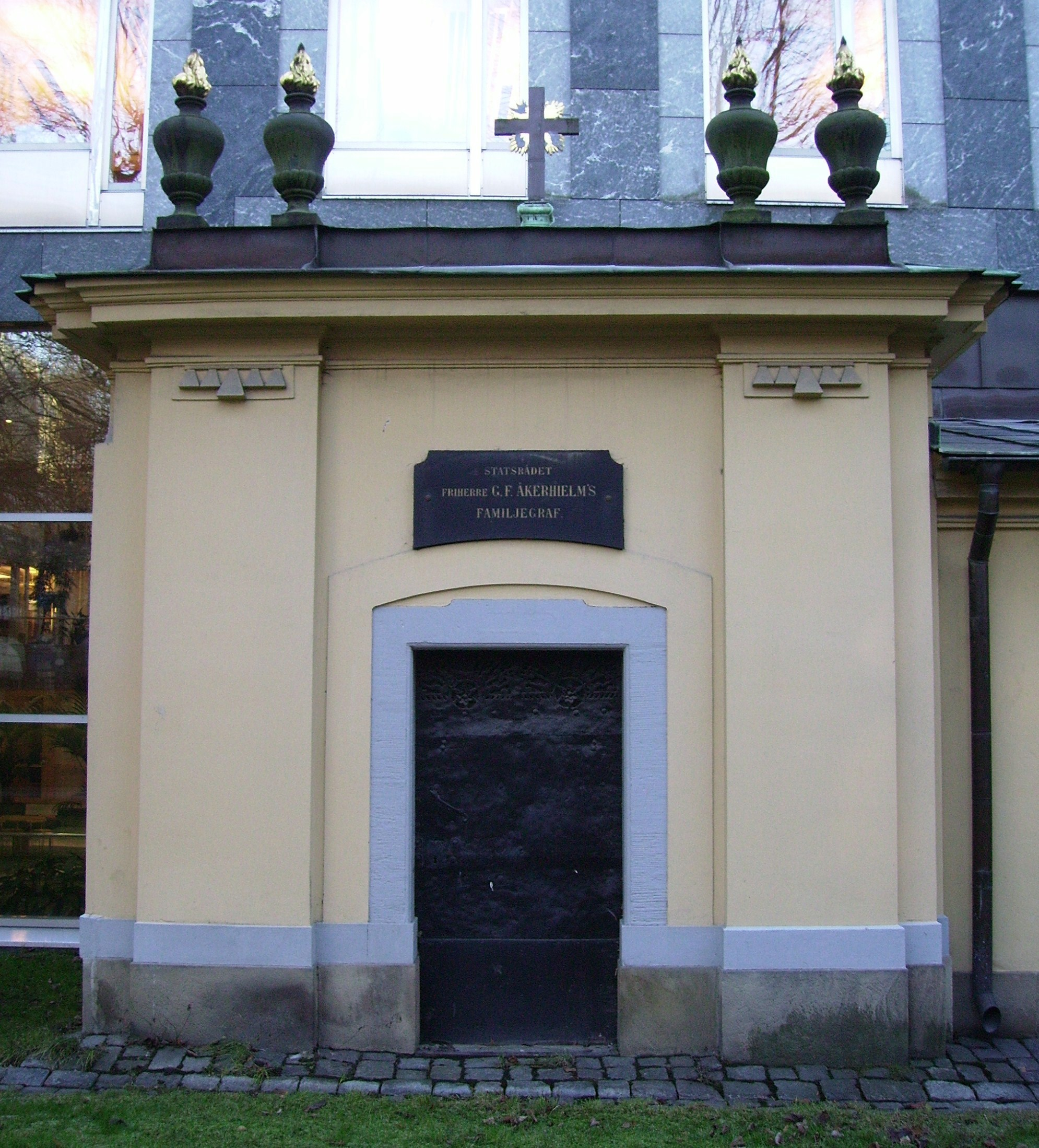 Picture of G.F. Åkerhielm's grave at Klara kyrkogård in Stockholm